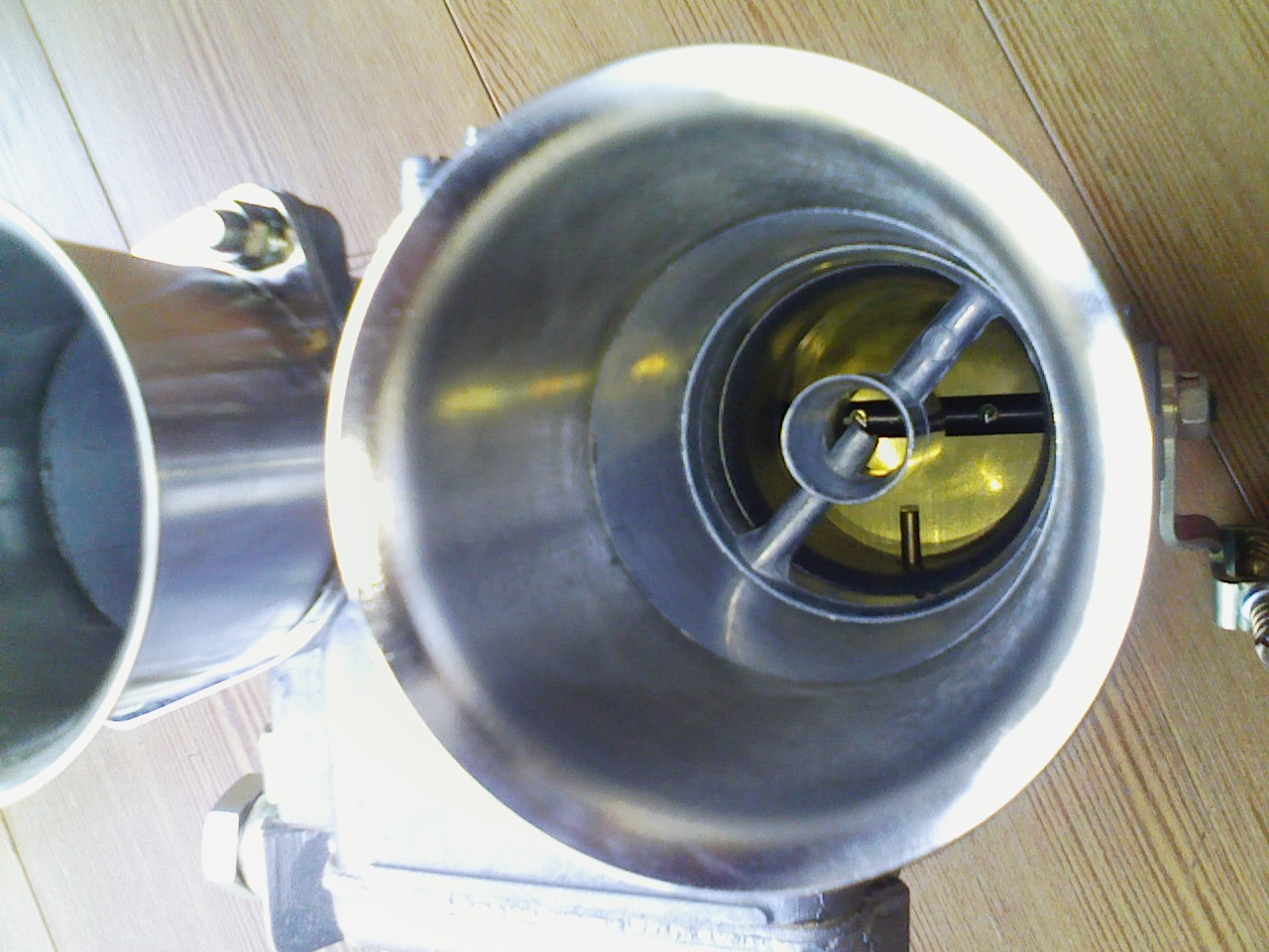 Weber55DCO-SP Venturis